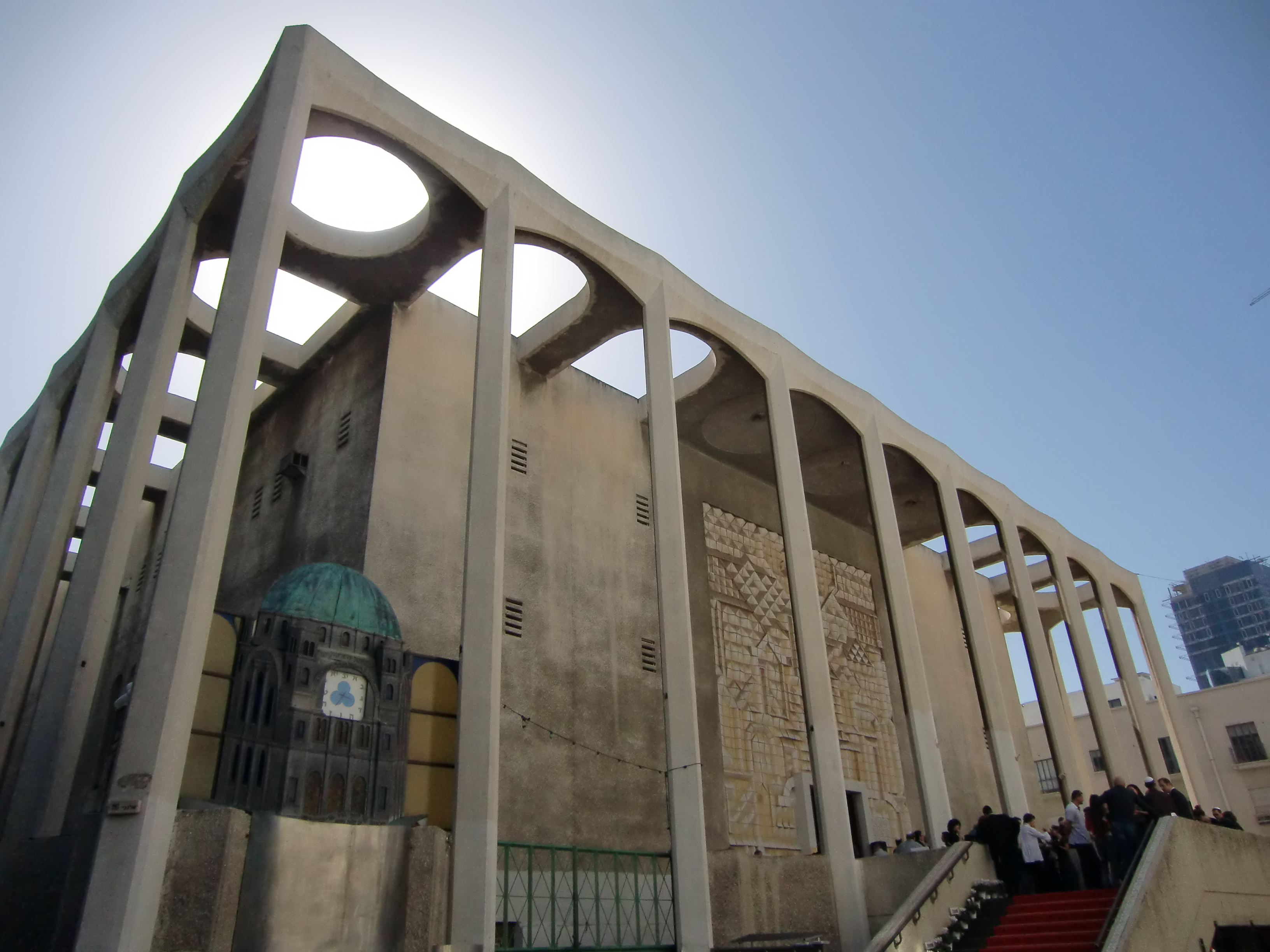 The central Synagogue in Tel , Geography of Israel